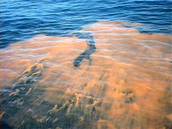 Picture of red tide